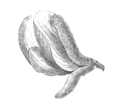 Illustration from book